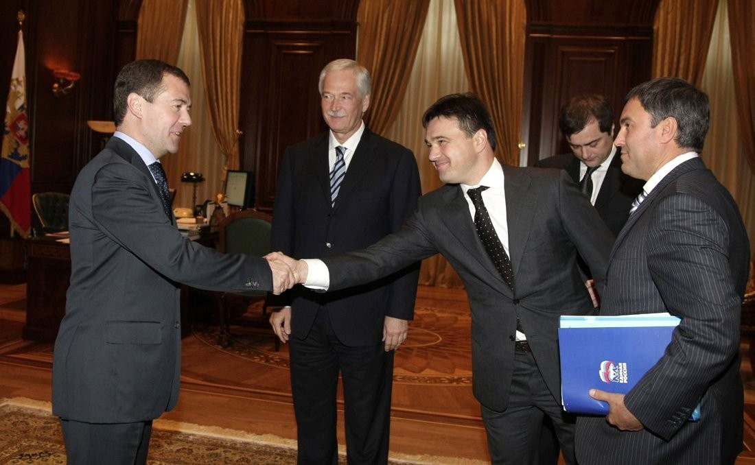 Dmitry Medvedev and Andrei Vorobyov (2009-10-19)